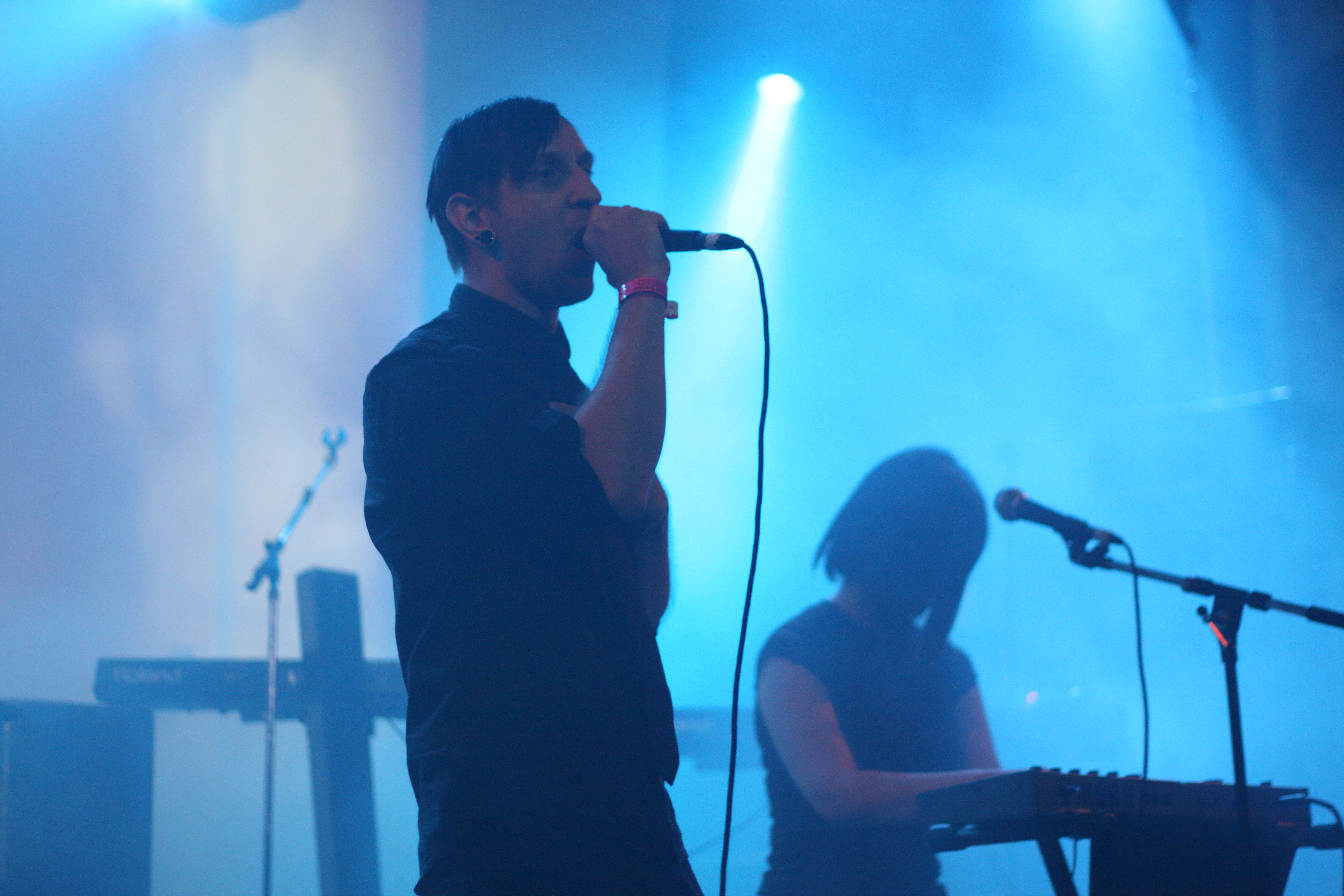 ∆AIMON performing live at the Cold Waves Festival in Chicago in 2014.